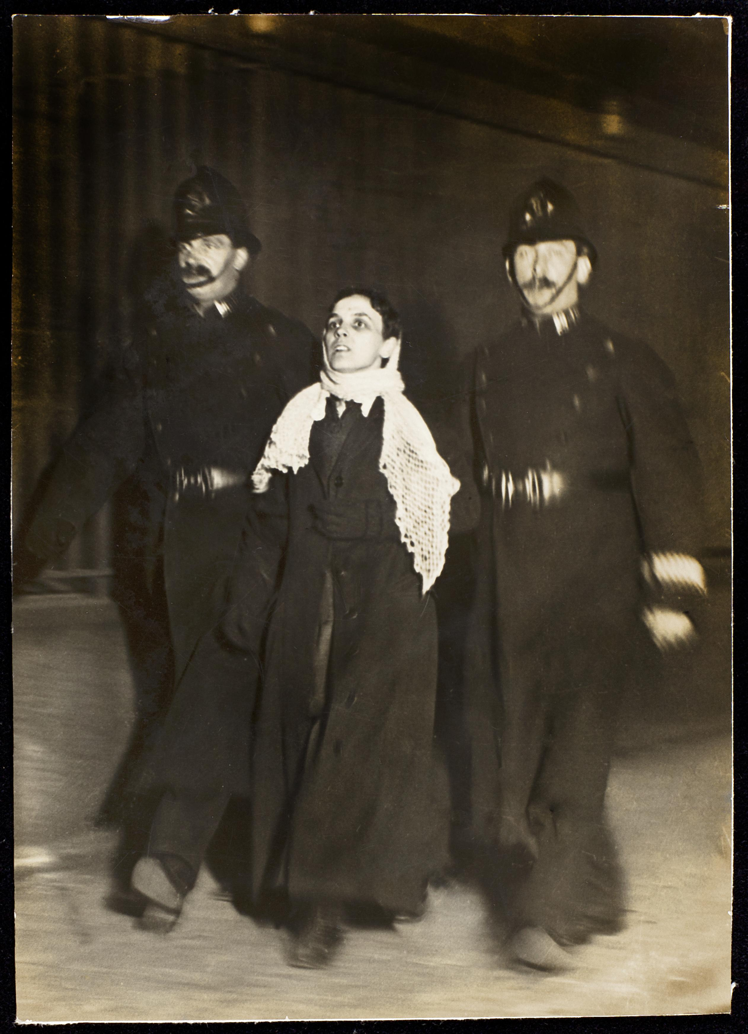 7EWD/J/21